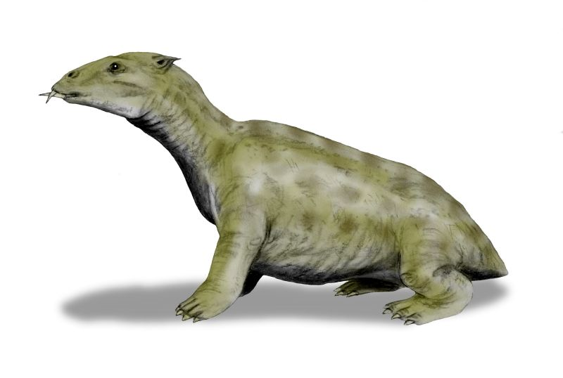 Desmostylus hesperus, a desmostylian amphibious mammal from the Early Miocene of North America and Eastern Asia